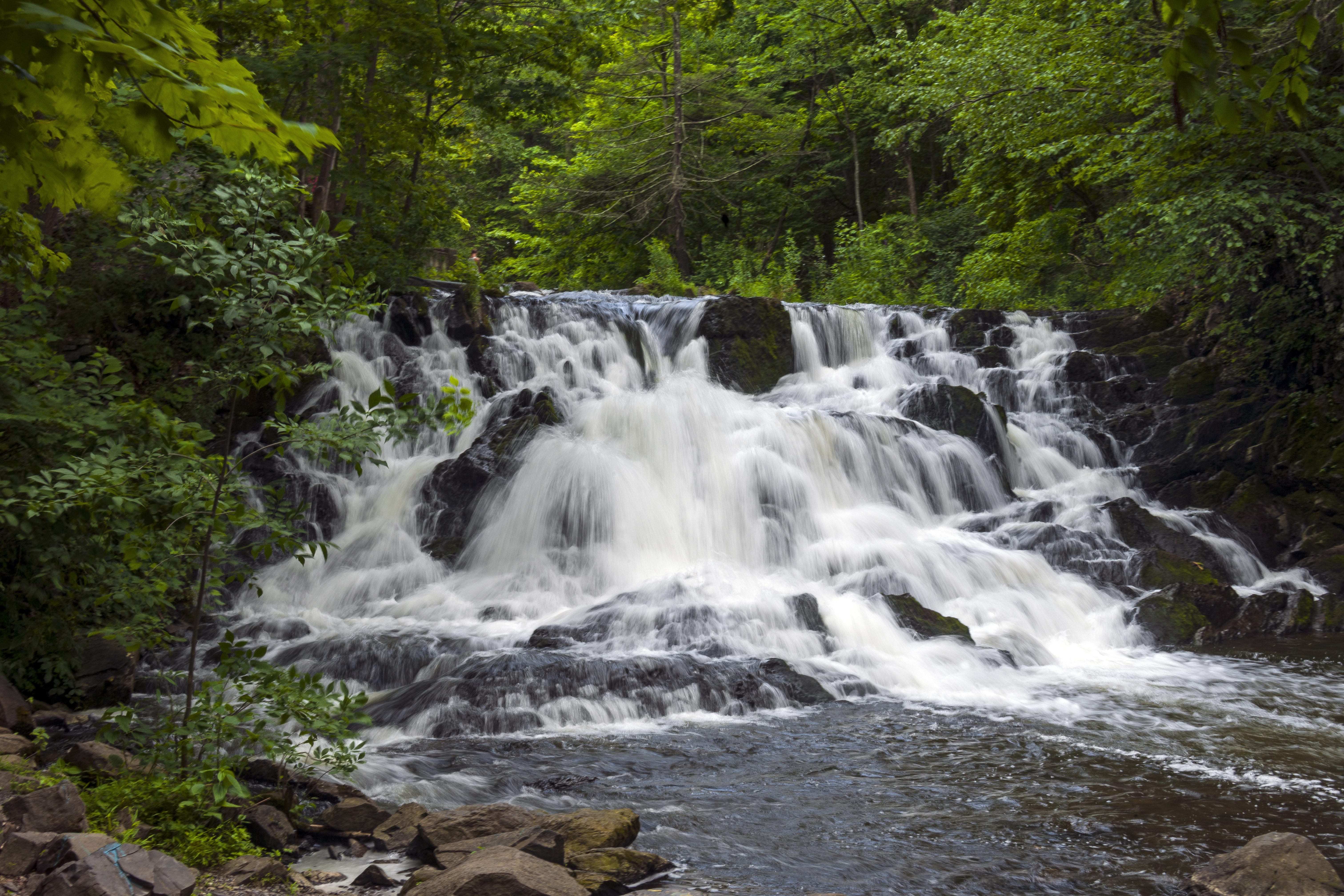 Zabriskie's Falls on the Saw Kill at the Bard College campus in Annandale-on-Hudson, NY, USA, exposed at 1/8 sec, about the longest I can hold the camera steady without a tripod